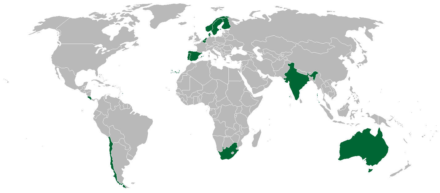 Map of the founding members of the International Institute for Democracy and Electoral Assistance